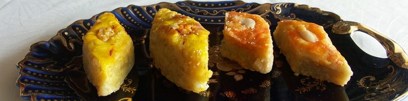 Azerbaijani pakhlavas from Ganja.